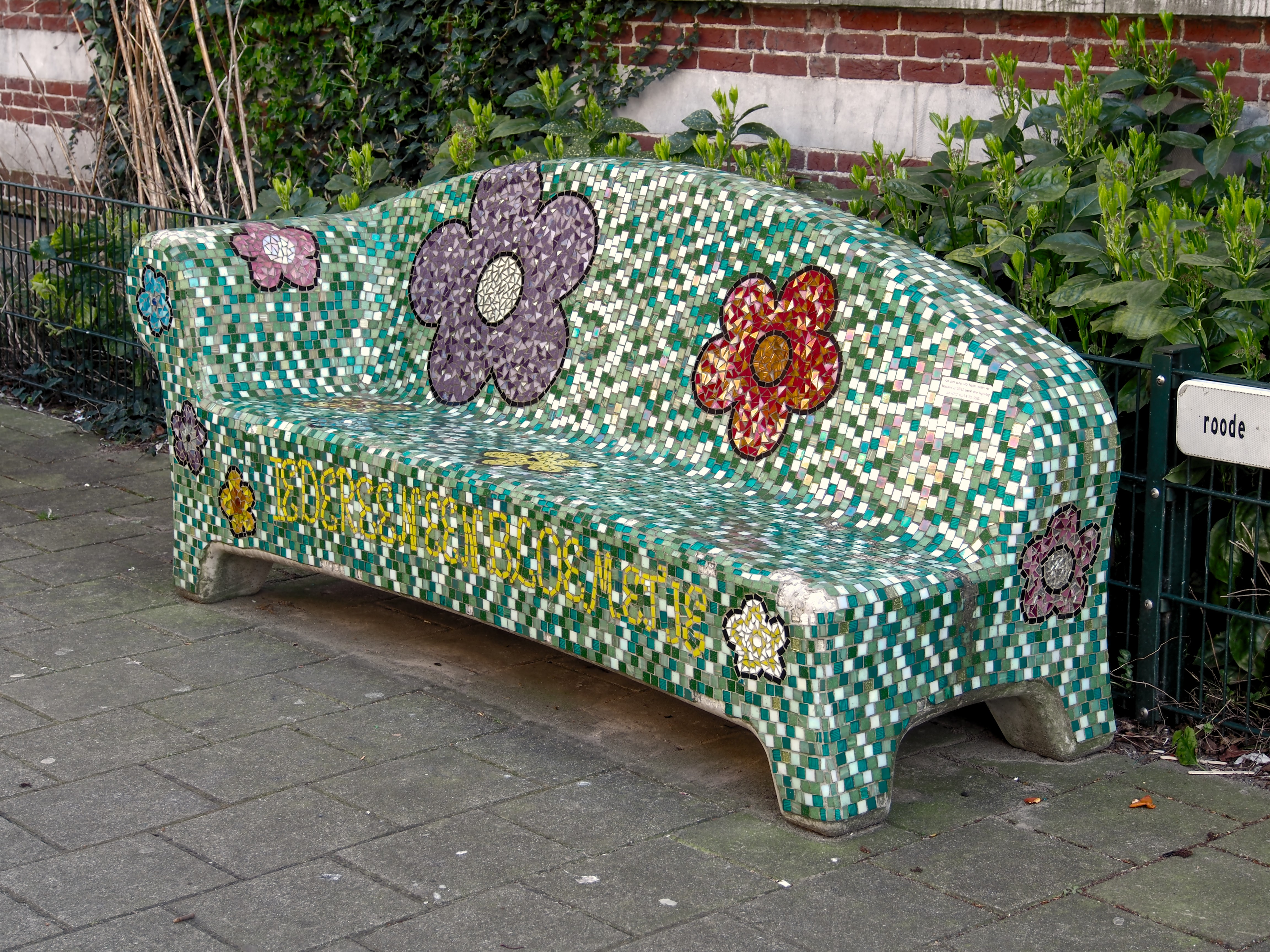 Photographed at Amsterdam, The Netherlands.